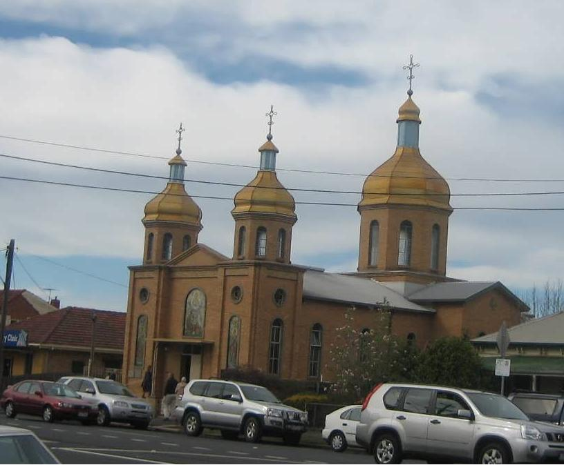 Ukrainian Orthodox church in 91 Buckley Street, Essendon, Victoria, Australia.